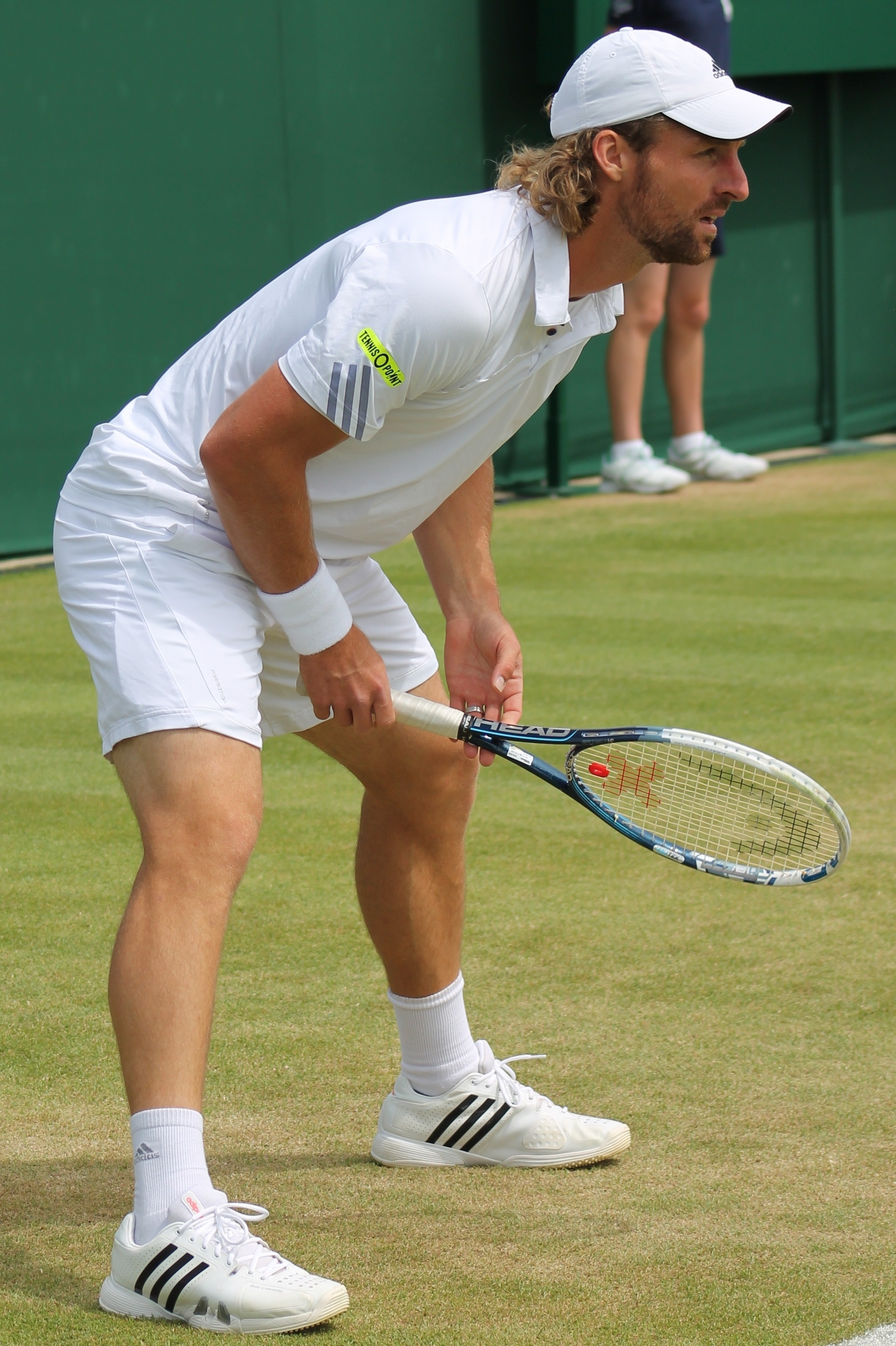 Andre Begemann playing in 1st Round of the Mens Doubles at Wimbledon 2013, Court 10, on 29 June 2013; partner was Martin Emmrich (GER); opponents Treat Huey (PHI) & Dominic Inglot (GBR)